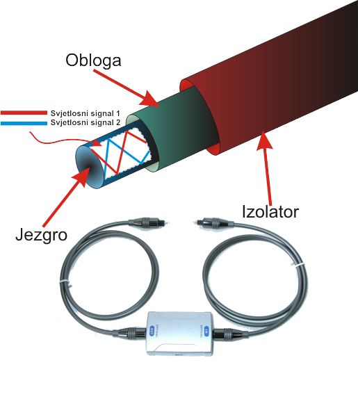 Optical fiber explanation